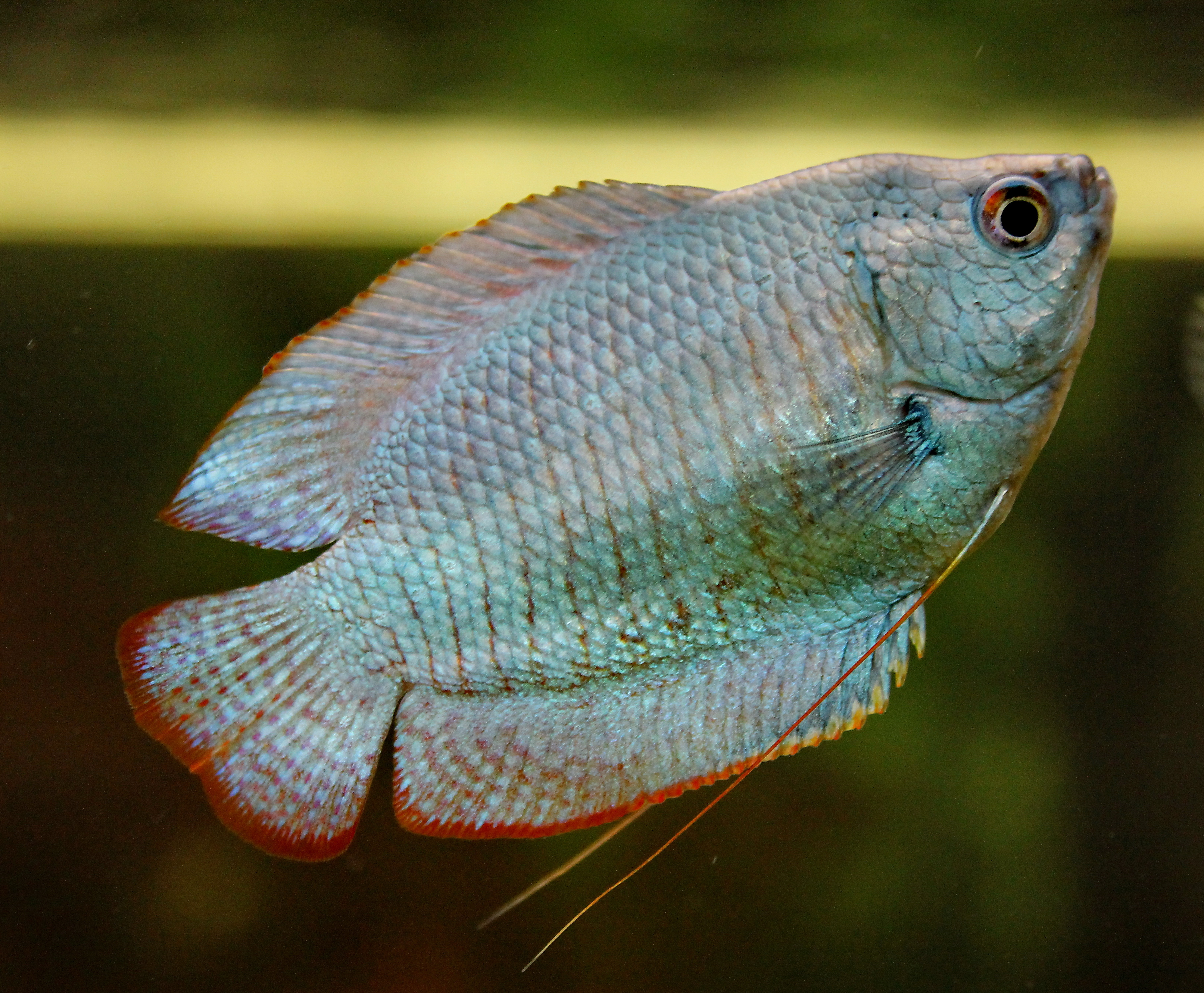 Colisa lalia